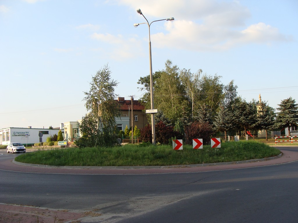 Jerka, Melchior Wańkowicz roundabout.